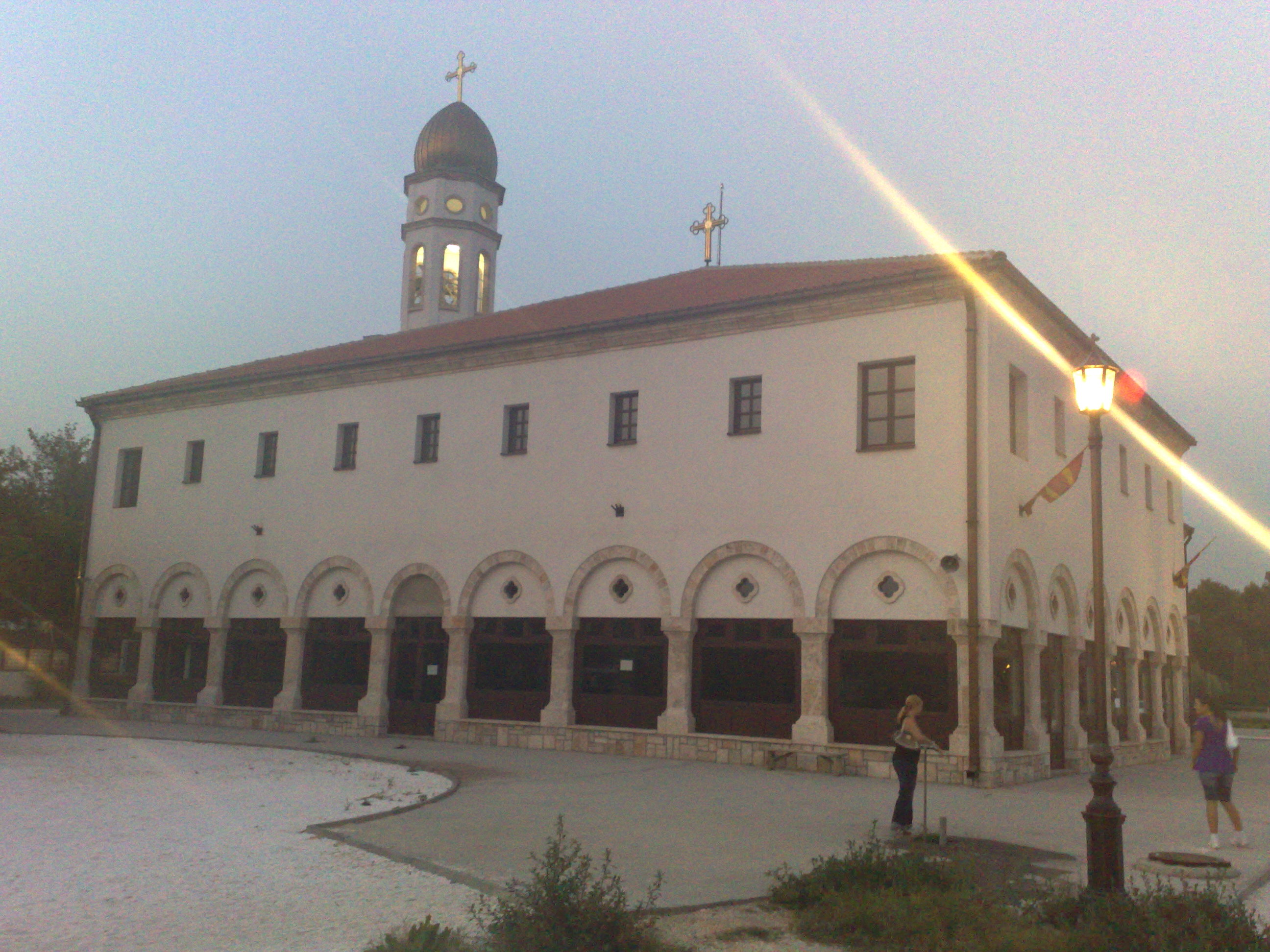 Assumption of Mary Church in Macedonian capital Skopje